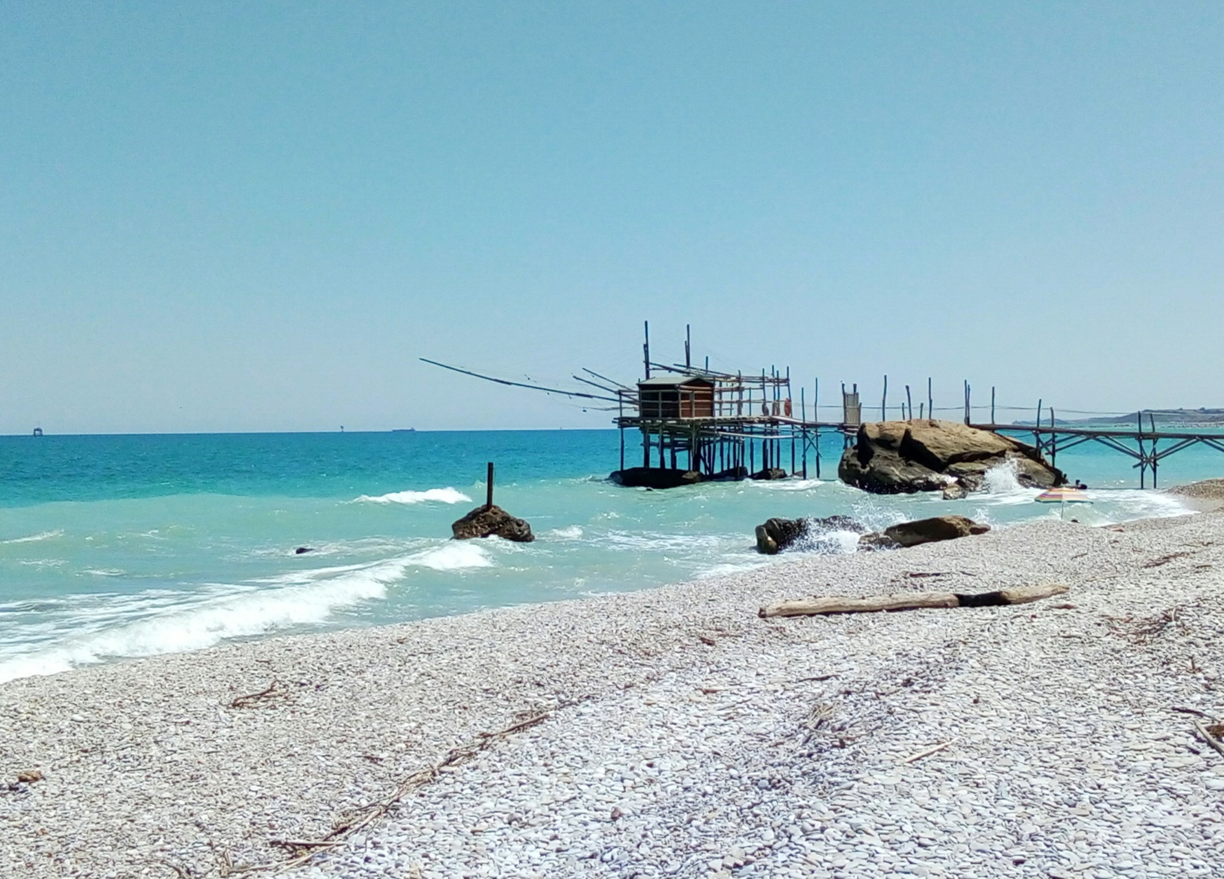 Trabucco Punta Le Morge as rebuilt in 2012, Torino di Sangro, Italy